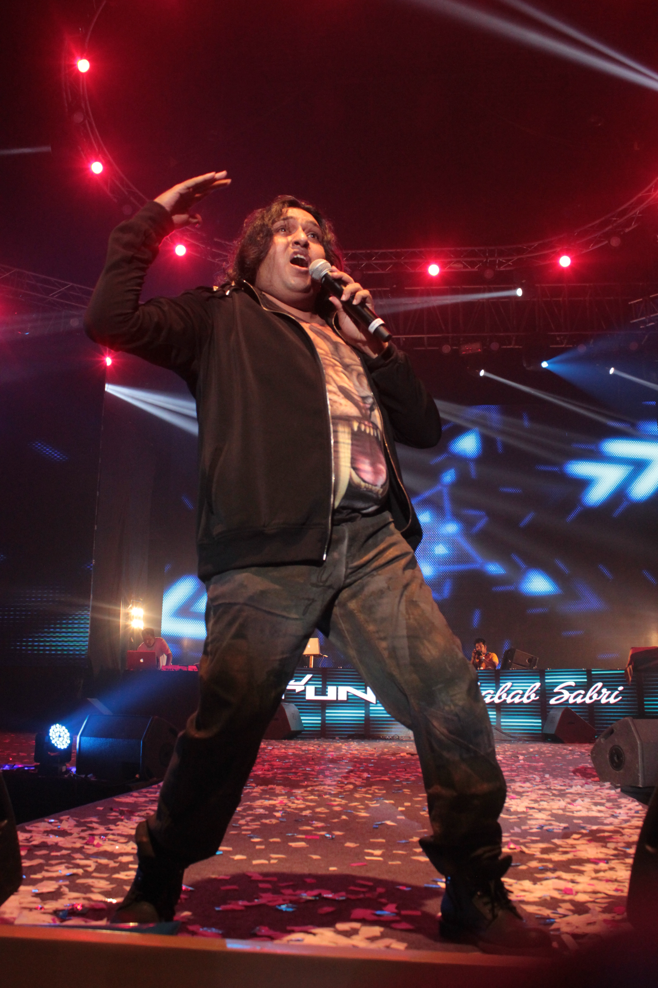 Shabab Sabri at Bollyland Event